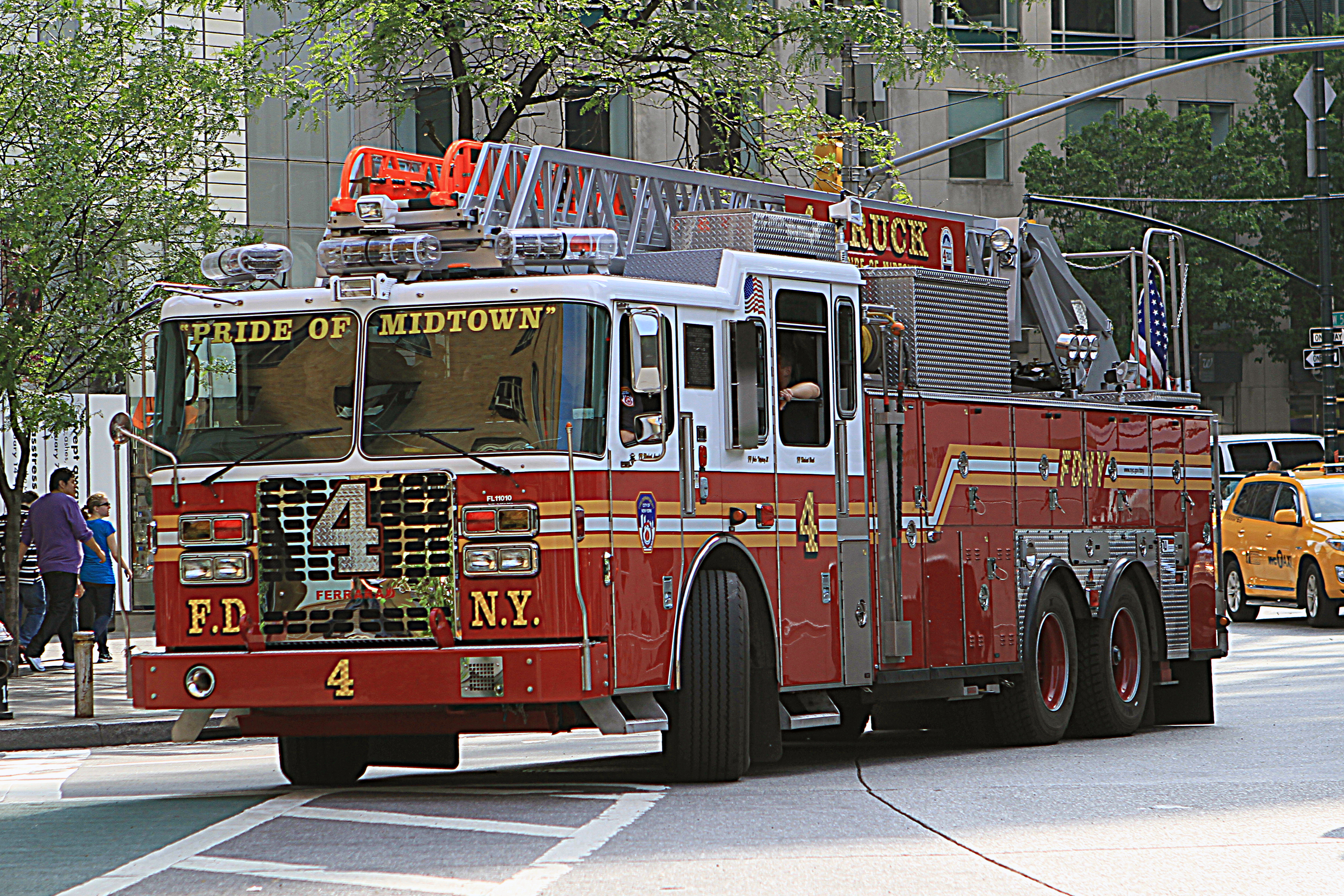 FDNY - Ladder 4 (Truck 4), made by by Ferrara Fire Apparatus.